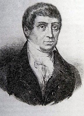 Domenico Alberto Azuni (sassari August 3, 1749 –cagliari January 23, 1827) was an Italian jurist.